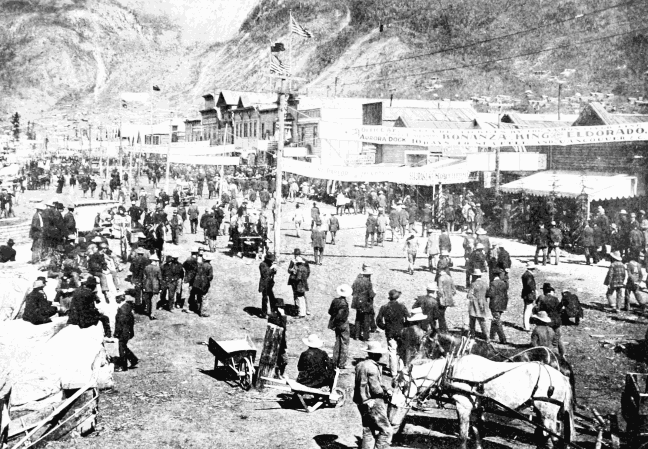 Street scene in Dawson City July 1899